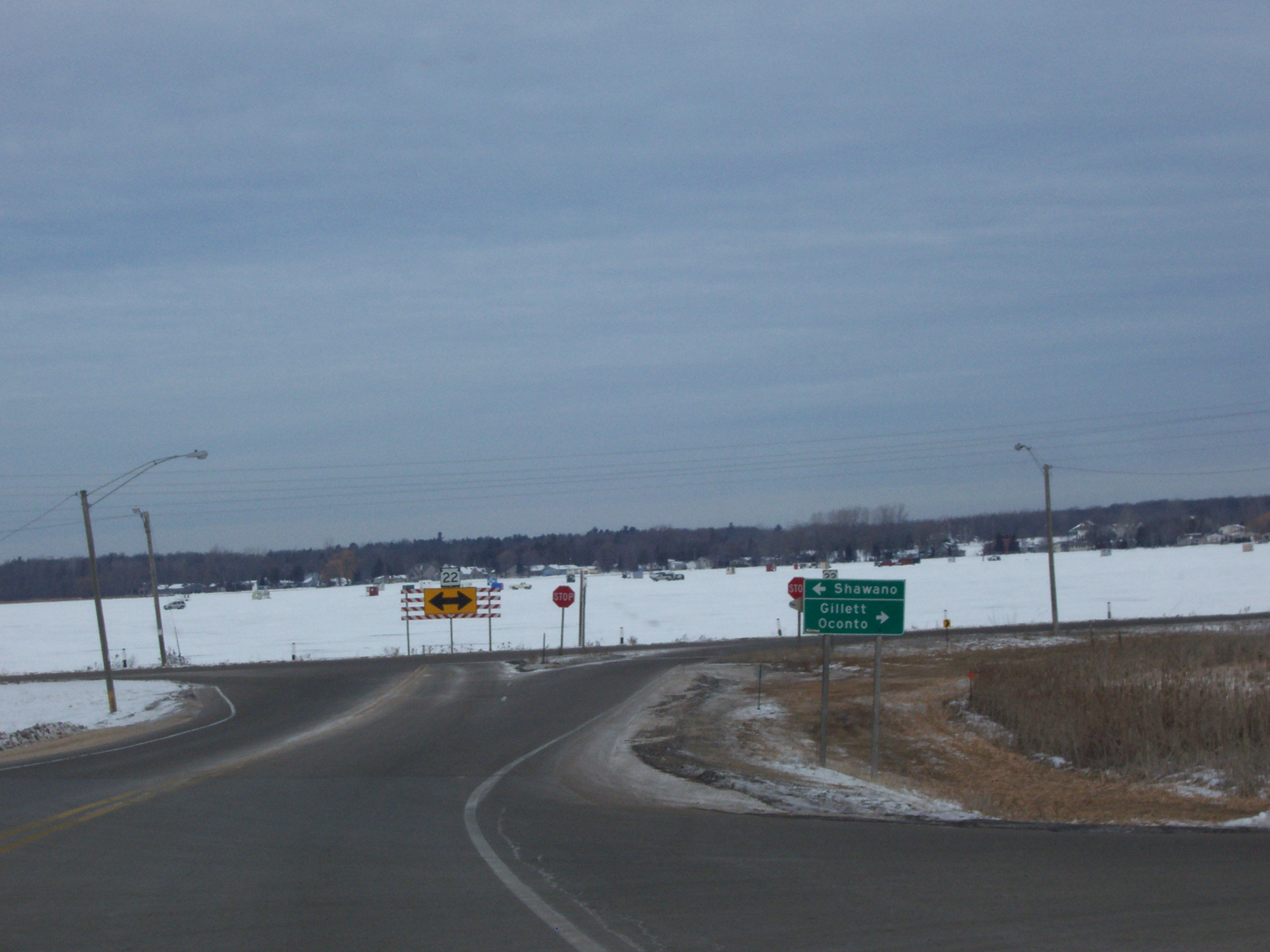 Looking north with traveling northbound on Wisconsin Highway 117 at its northern terminus at its intersection Wisconsin Highway 22 in Cecil, Wisconsin, USA. The white is iced over Shawano Lake. )